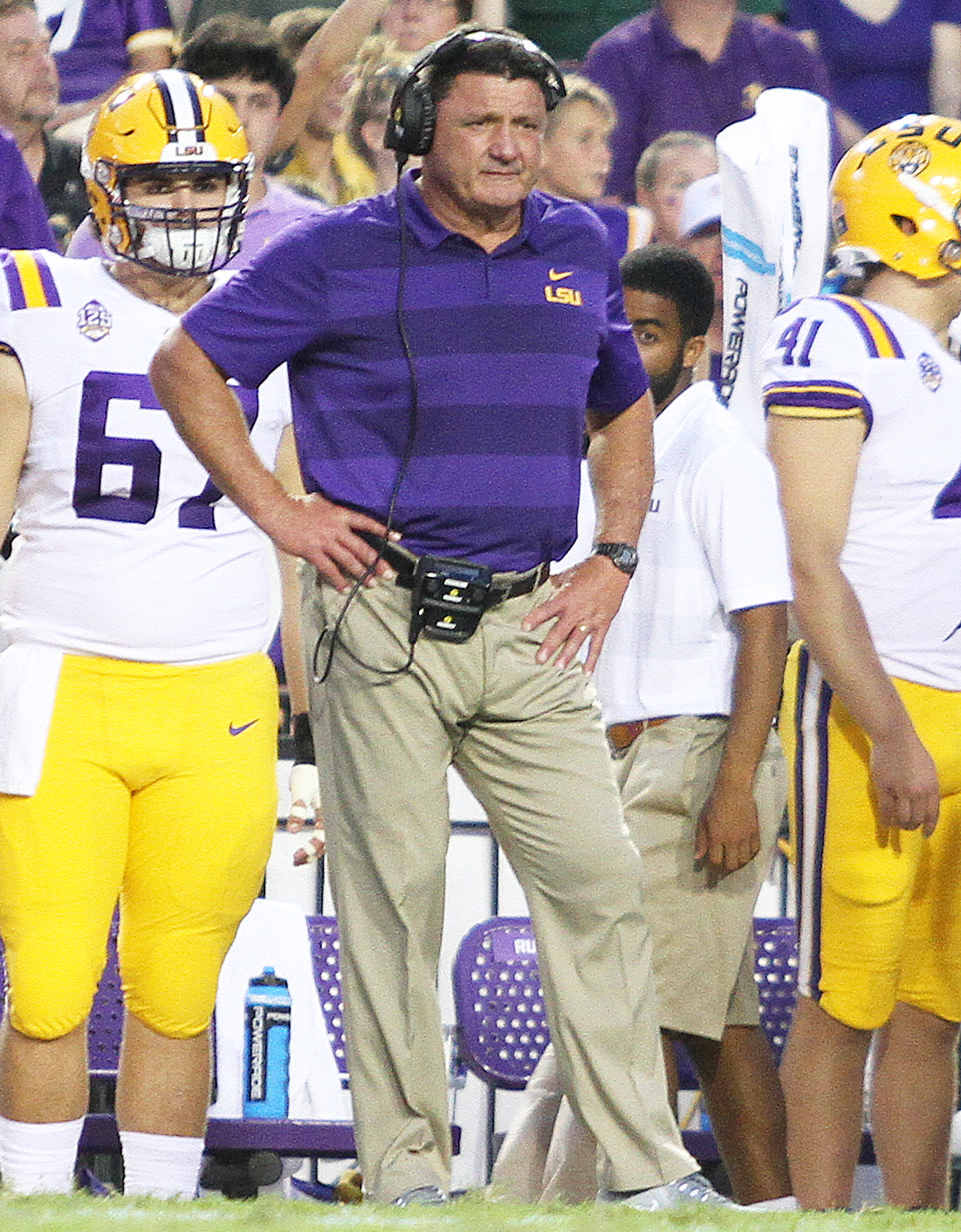 Head Coach Ed Orgeron, SELU vs LSU at Tiger Stadium, September 8th 2018, Tammy Anthony Baker, Photographer